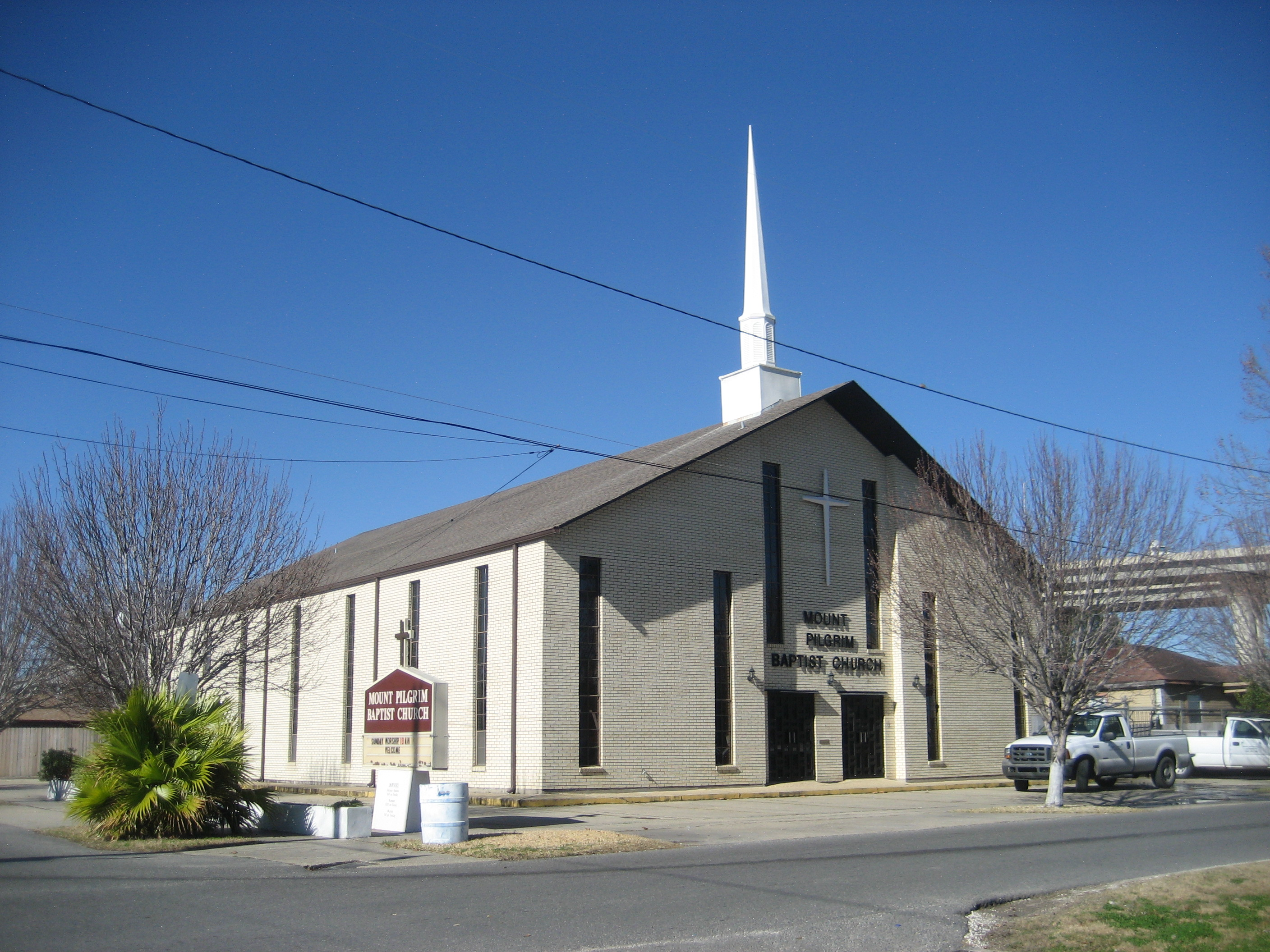 Mount Pleasant Baptist Church, Harvey, Louisiana.